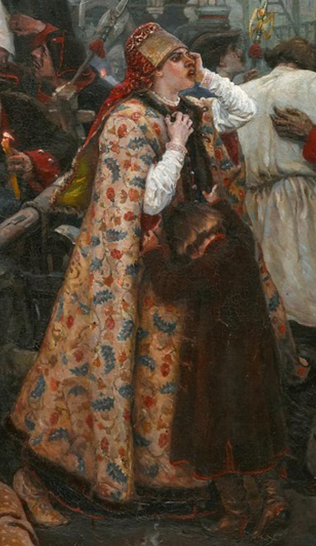 Detail of the painting "Morning of streltsy's beheading" by Vasily Surikov (1881)